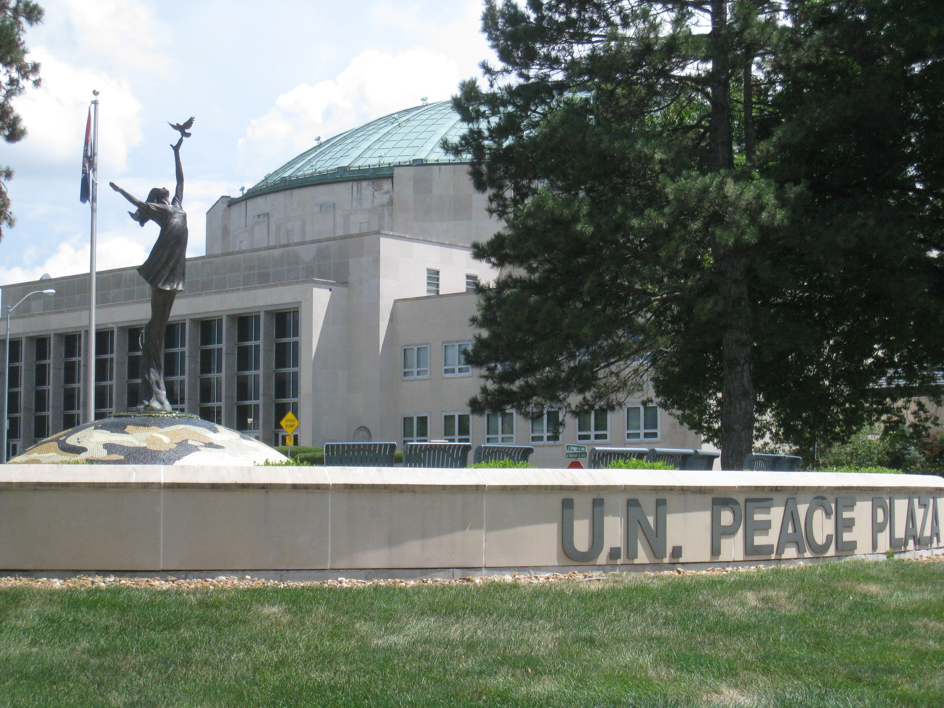 United Nations Peace Plaza monument and RLDS/Community of Christ Auditorium, Independence, Missouri, July 2010.